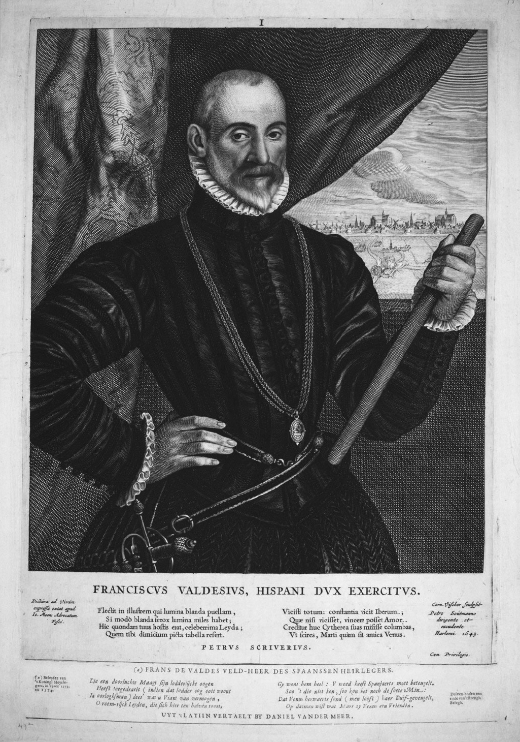 Francisco Valdes